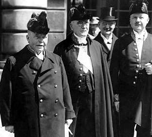 Prime Minister Arvid Lindman to the left at the courtyard of Stockholm Palace as his second cabinet takes office in 1928. Here together with cabinet ministers Ernst Trygger, Claes Lindskog och Sven Lübeck.